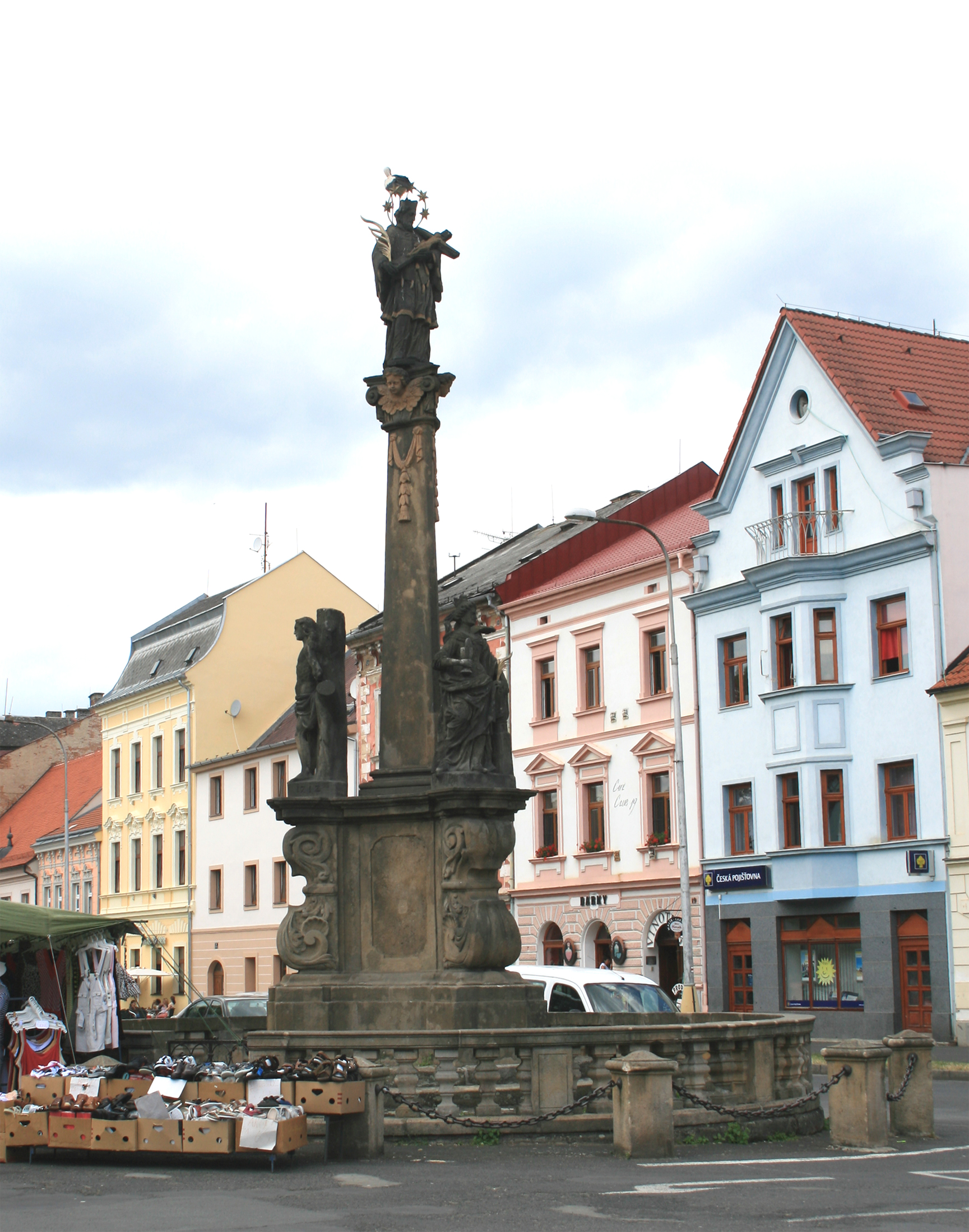 Column on sgaure in Planá near Tachov in Czech Republic